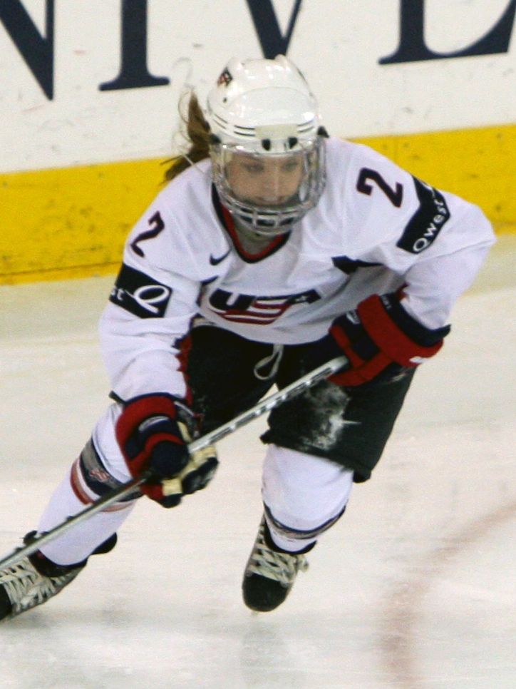 United States forward Erika Lawler in a game against the ECAC All-Stars on January 3, 2010.